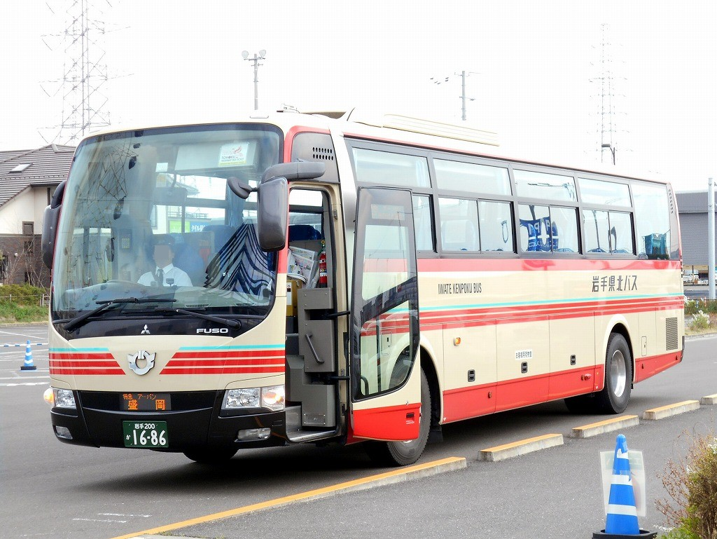 Iwate Kenpoku bus highwaybus "Urban-gou"(Morioka-Sendai)